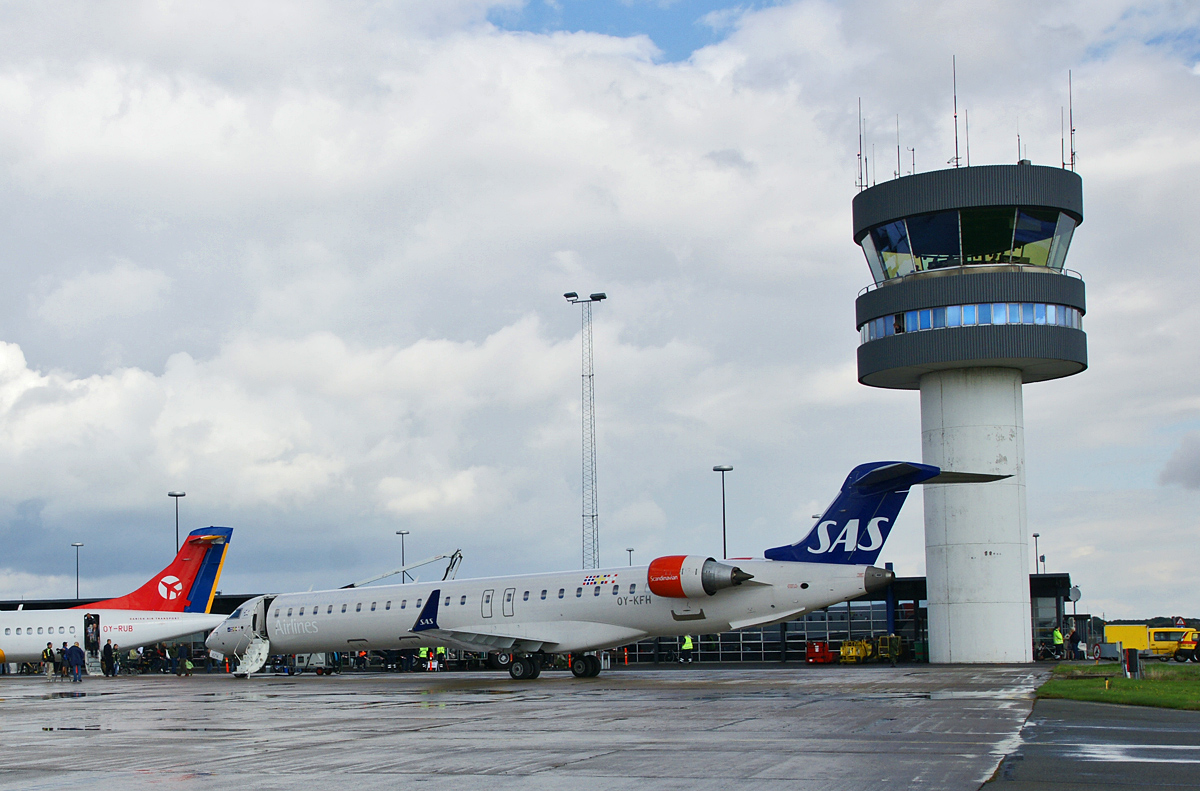 Roskilde Airport (IATA: RKE - ICAO: EKRK), SAS CRJ-900 (OY-KFH) in front of terminal building and airport tower tower